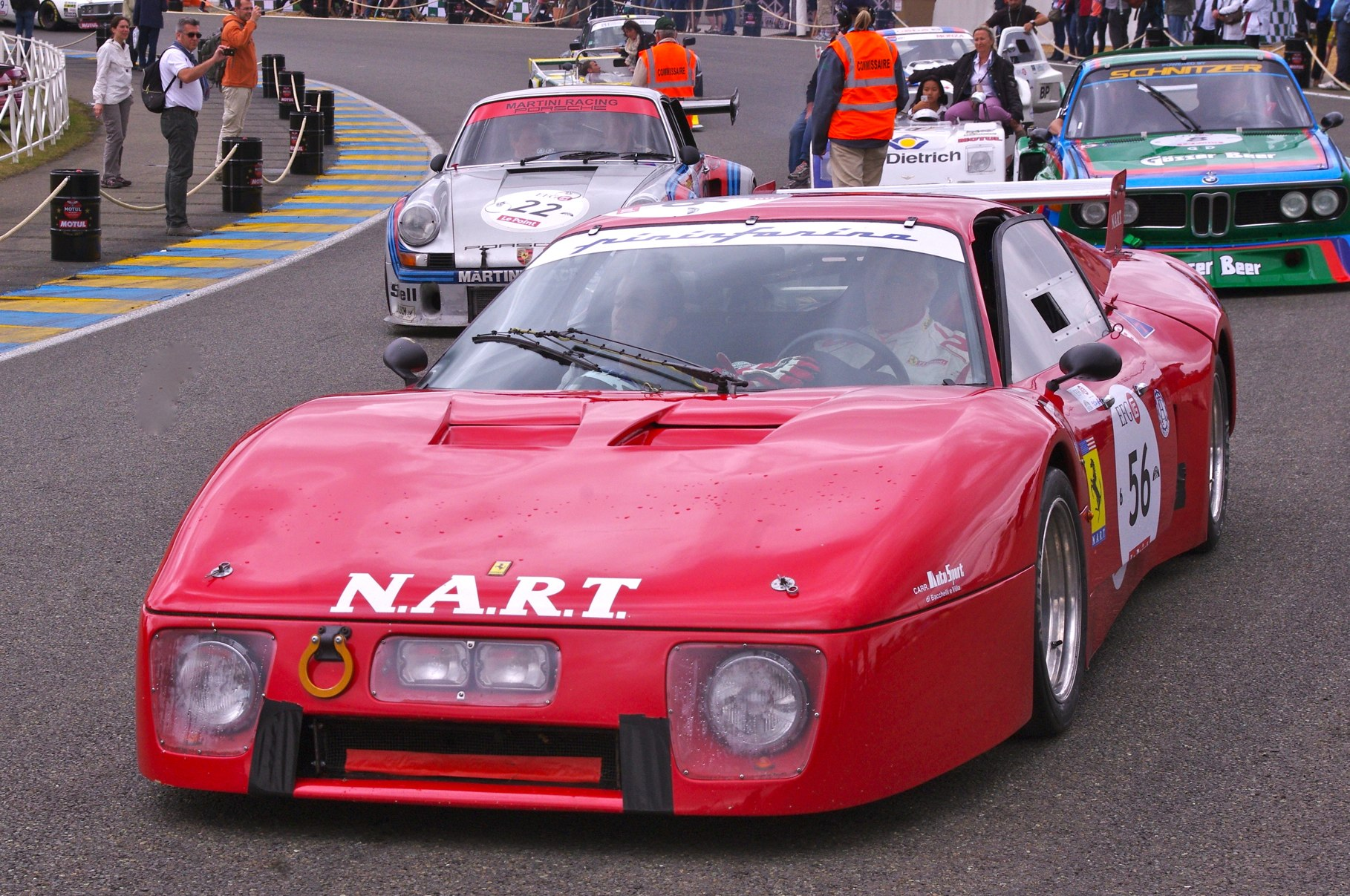 1980 Ferrari 512 BB LM s/n 30559 at Le Mans Classic 2014